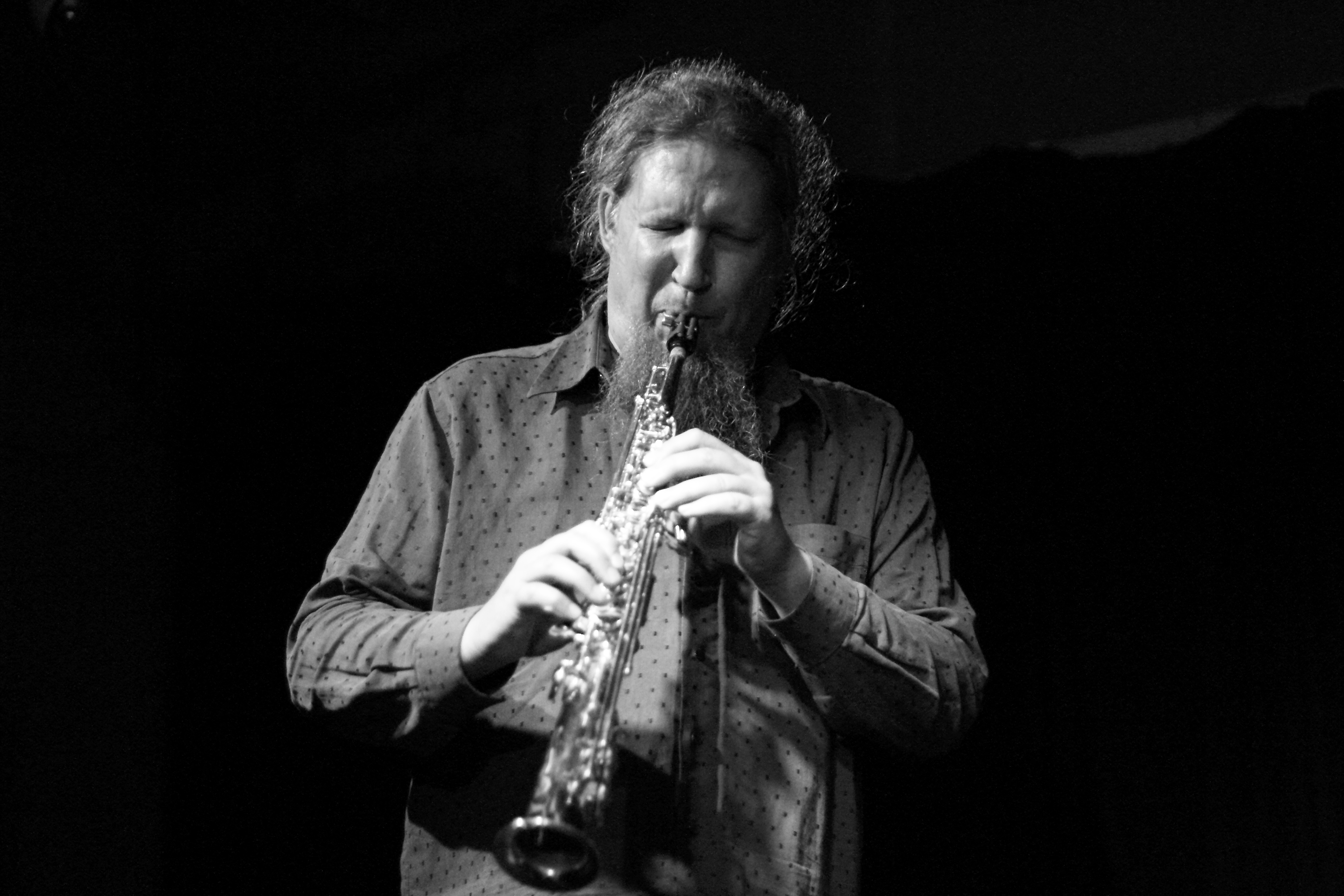 Frank Paul Schubert and Foil Quartet at Club W71, 2016.